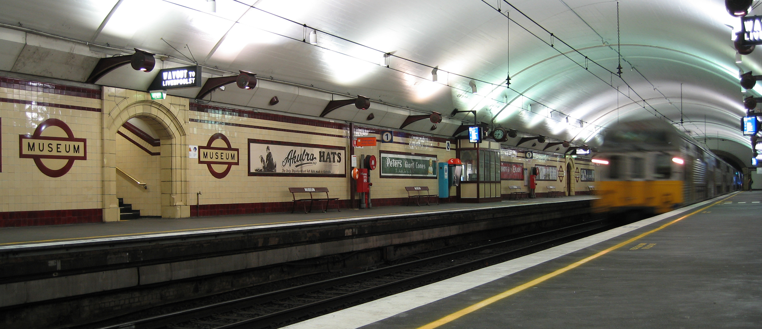 Museum Station, Hyde Park, Sydney, Australia.